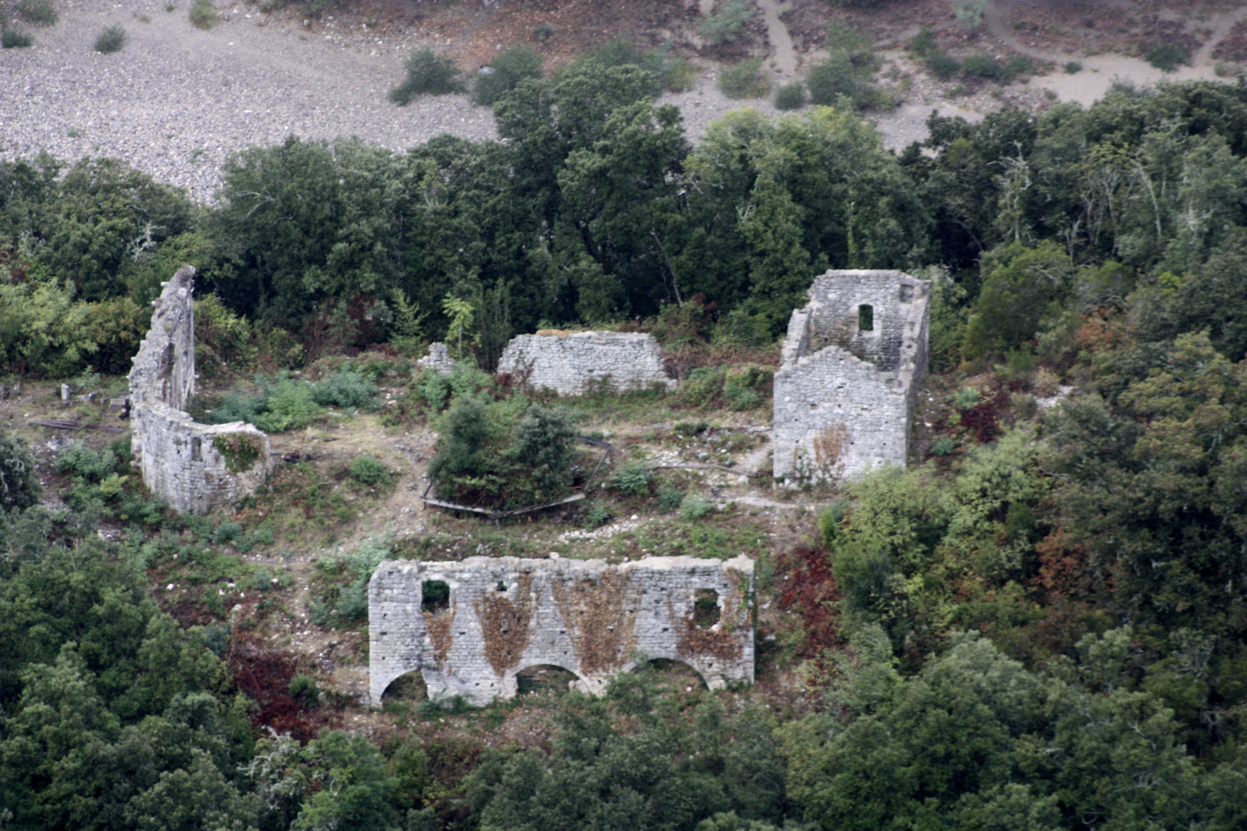 Leprosy of the Templars.